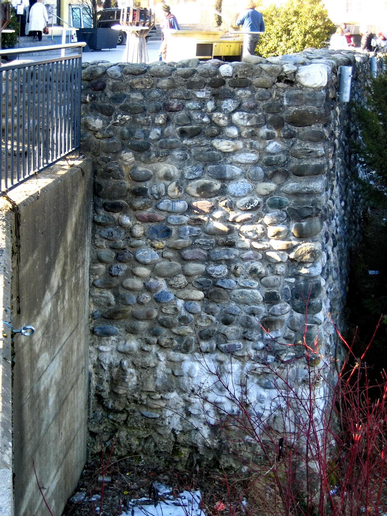 Zürich - Uetliberg : Uetliberg castle.